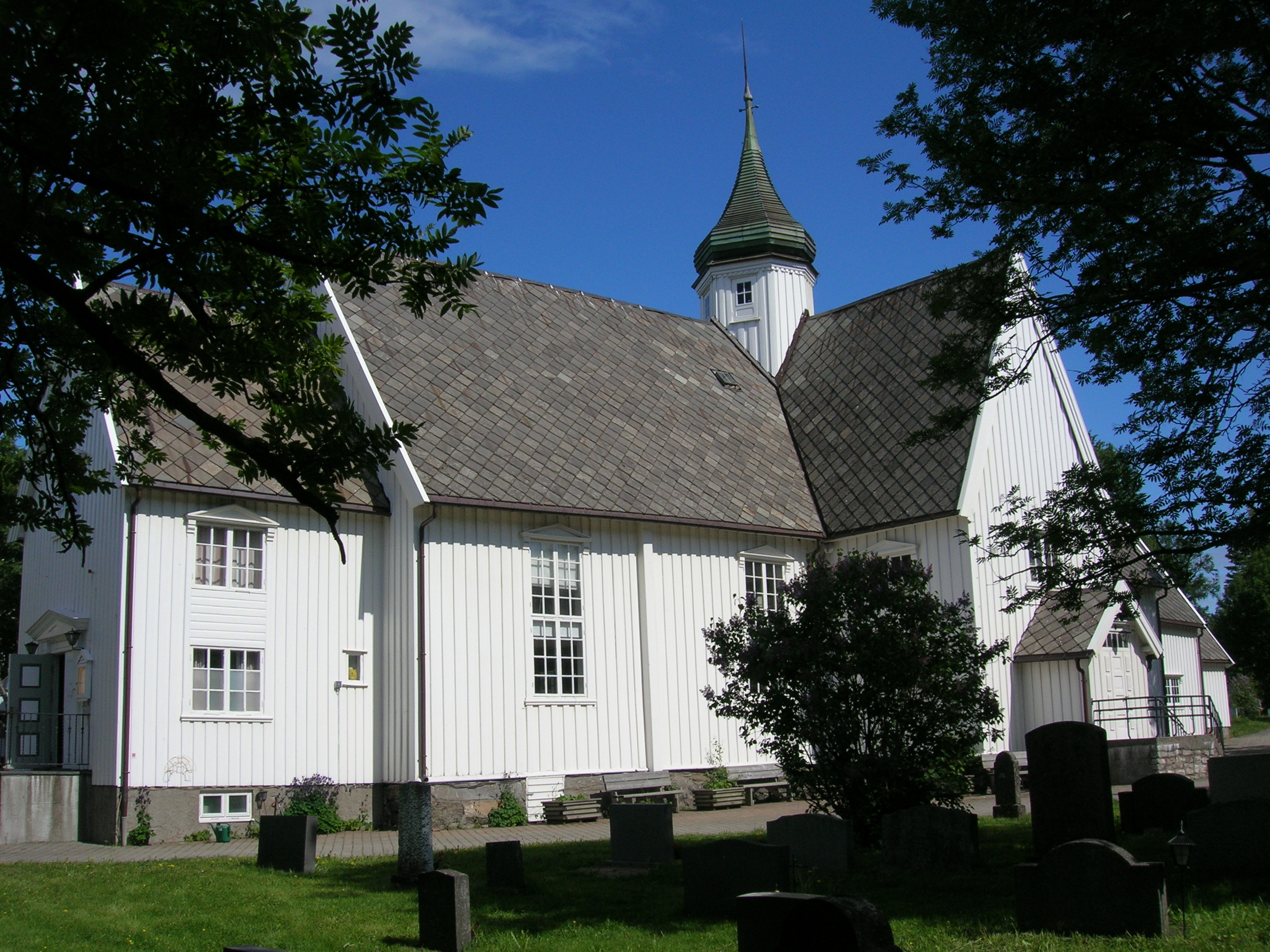 Mo church in Mo i Rana, municipality, Nordland, Norway, Photo June 10, 2007 with a Nikon Coolpix 5600 5,1 Megapixel camera.